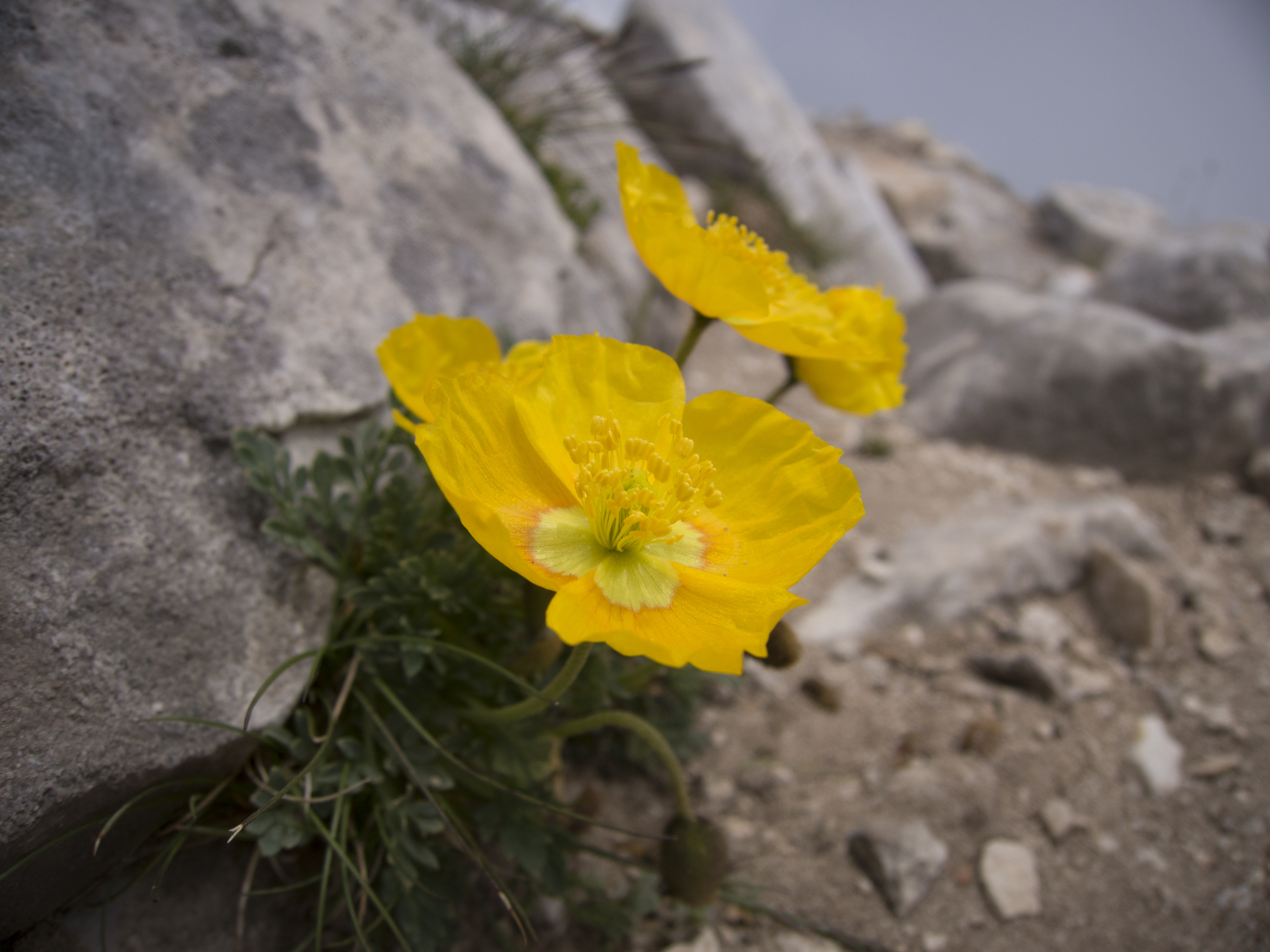 Papaver degenii at the foot of peak Vihren, Pirin mountain